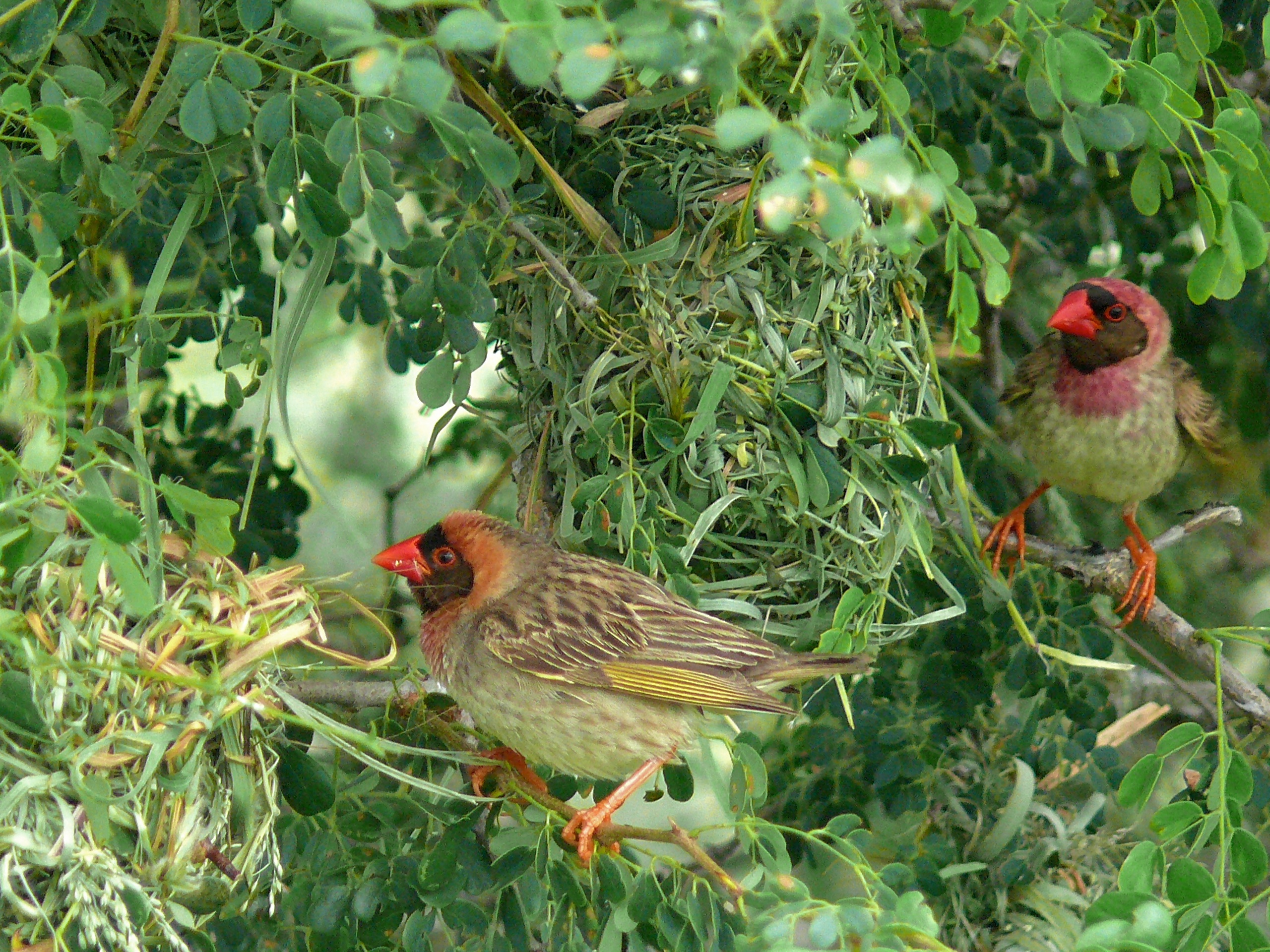 H10 South of Tshokwane, Kruger NP, SOUTH AFRICA